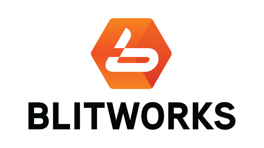 BlitWorks video game porting company official logo